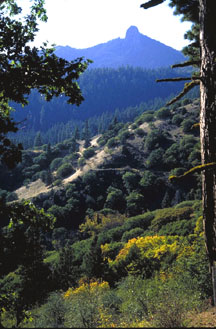 Forests and mountains in Cascade-Siskiyou National Monument, Oregon